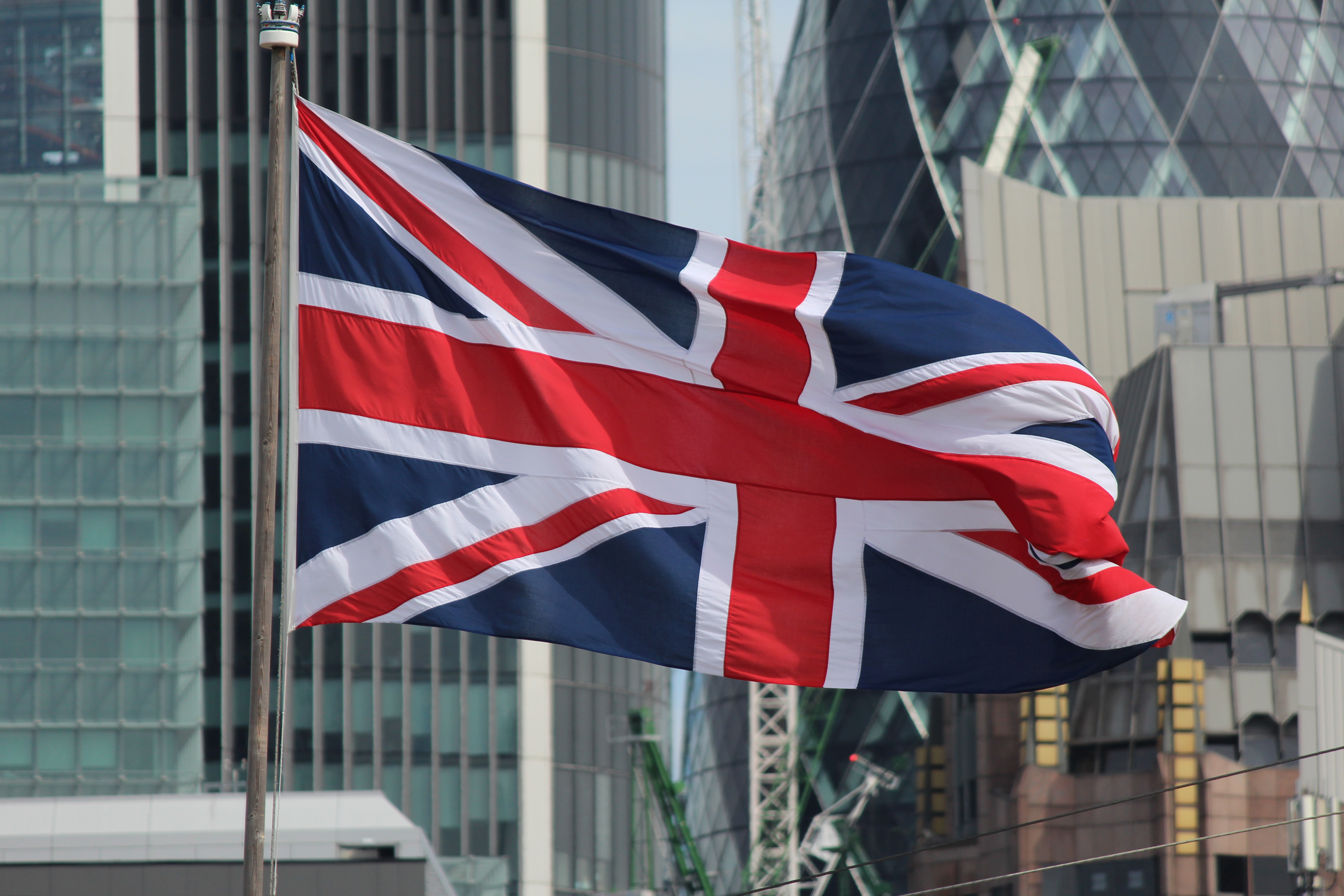 The British Union Jack flag flying in the center of London along the river in July 2016